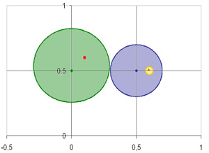 Illustration for Inverse function theorem: Use of fix point theorem